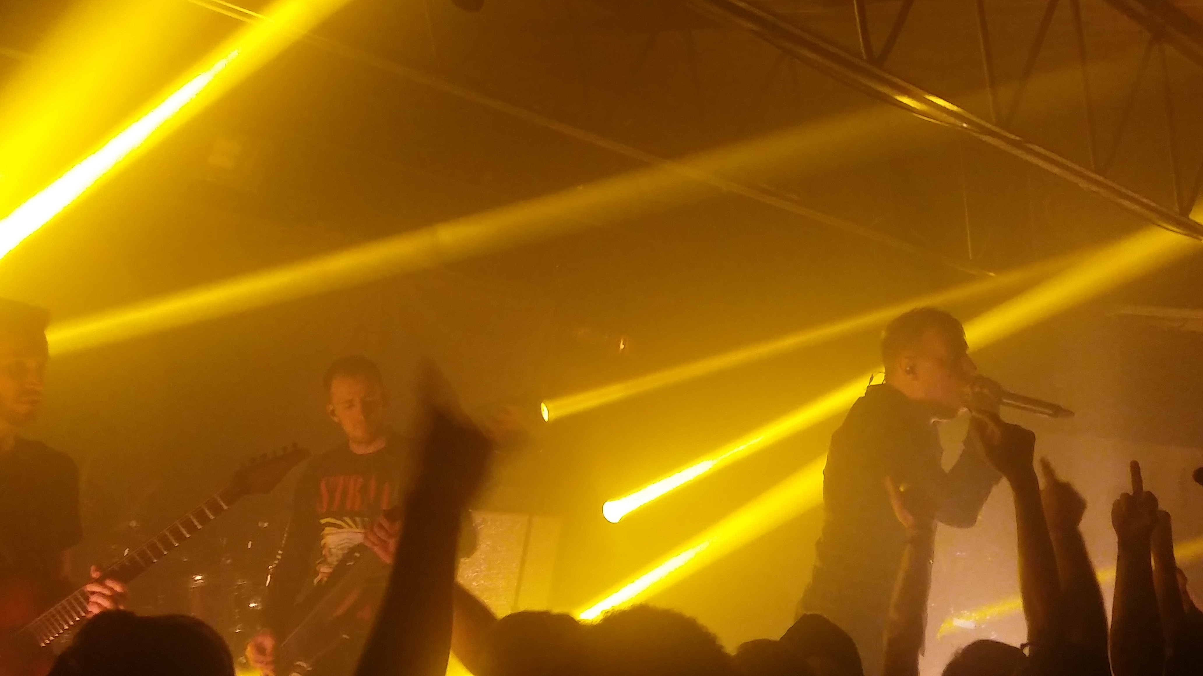 Architects (British band)